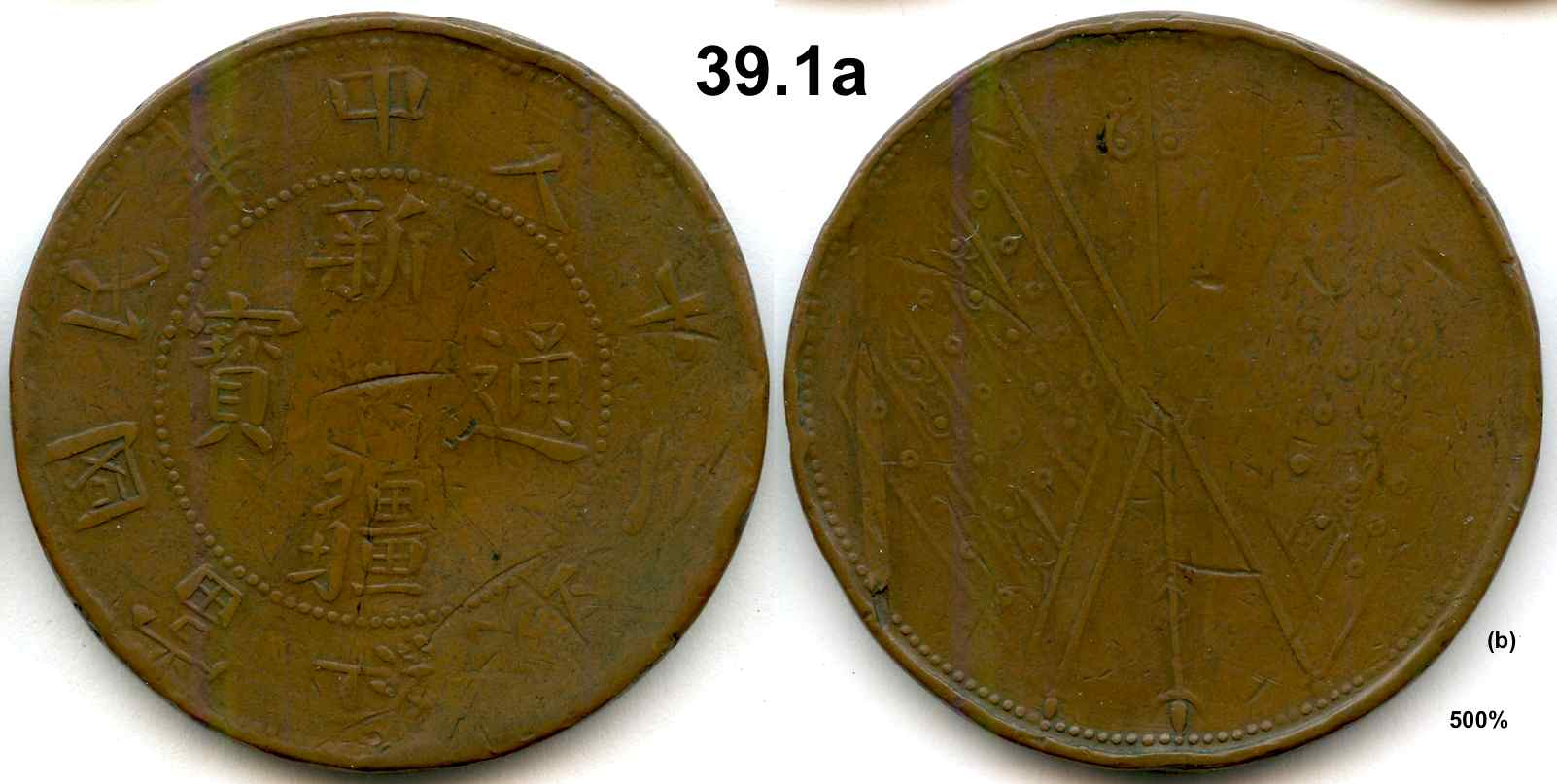 民 國 GENERAL COINAGE - Republic B39.1 10 Cash, ND, 新 疆 通 寳 s. Chinese legends; R: Staff & crossed flags w. arabesque stripes; Variety: Large 十. ZL11 Vg $20.00 DC 39.1a 20 Cash, ND, 新 疆 通 寳 s. Chinese legends; R: Staff & crossed flags w. stripes; Variety: 8-petal rosette; Arabesques in stripes, large decorations on staff. ZL13v wk. Vg-F $25.00 DC 39.1b 20 Cash, ND, 新 疆 通 寳 s. Chinese legends; R: Staff & crossed flags w. stripes; Variety: 8-petal rosette; Arabesques in stripes, small decorations on staff. ZL13 wk. Vg-F $25.00 DC.